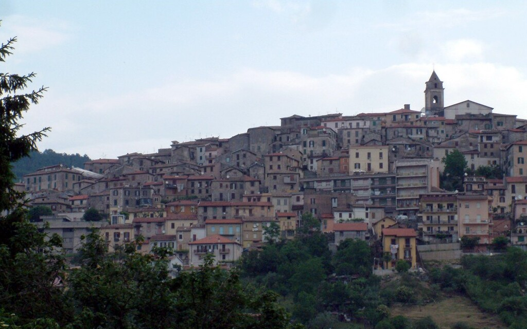 Old town of Fiuggi (Fiuggi Citta). Own photograph, 2006